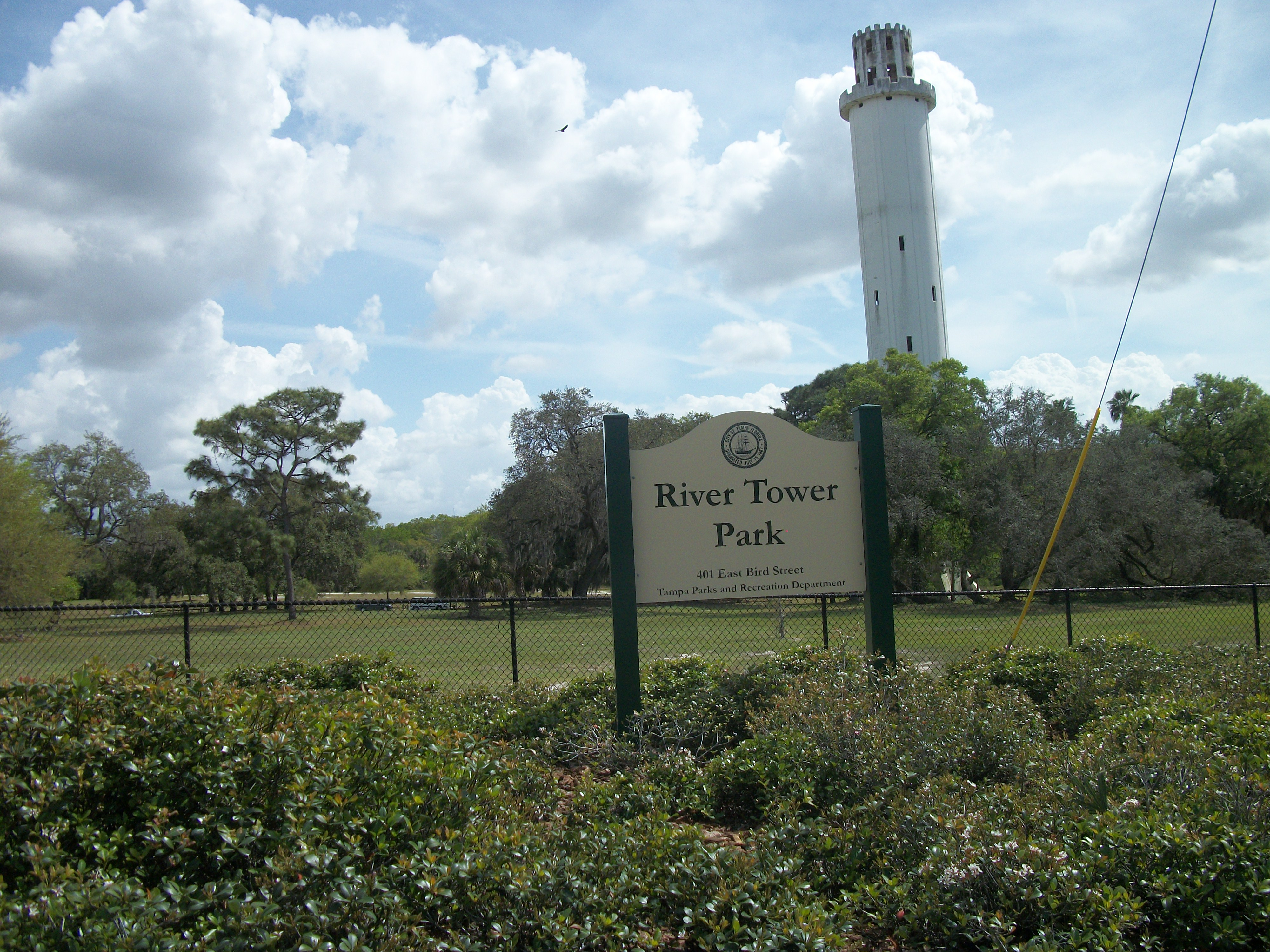 Sign for River Tower Park on the southeast corner of US BUS 41 and Bird Street, site of the historic Sulphur Springs Water Tower.